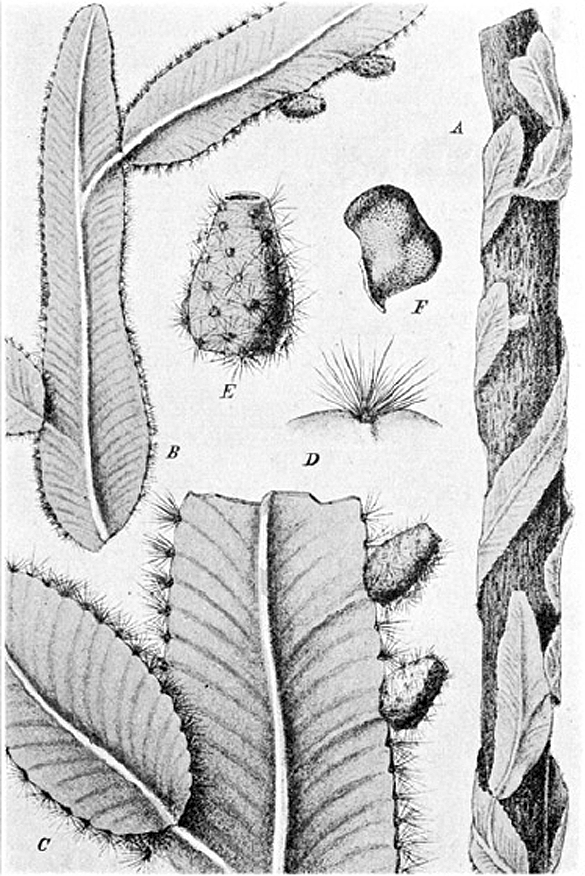 Plate of Selenicereus wittii